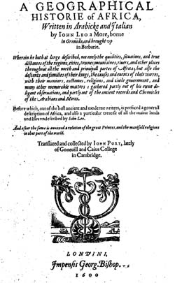 Title page of Johannes Leo Africanus; John Pory (trans. & comp.) (1600). A Geographical Historie of Africa, Written in Arabicke and Italian. ... Before which... is Prefixed a Generall Description of Africa, and... a Particular Treatise of All the... Lands... Undescribed by J. Leo... Translated and Collected by J. Pory. London: George Bishop